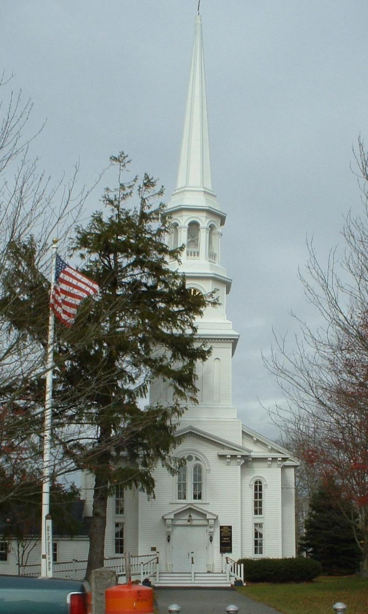 The First Congregational Church of Harwich, Massachusetts. This is the third building of the church, erected in 1832. It is located in the Harwich Historic District.